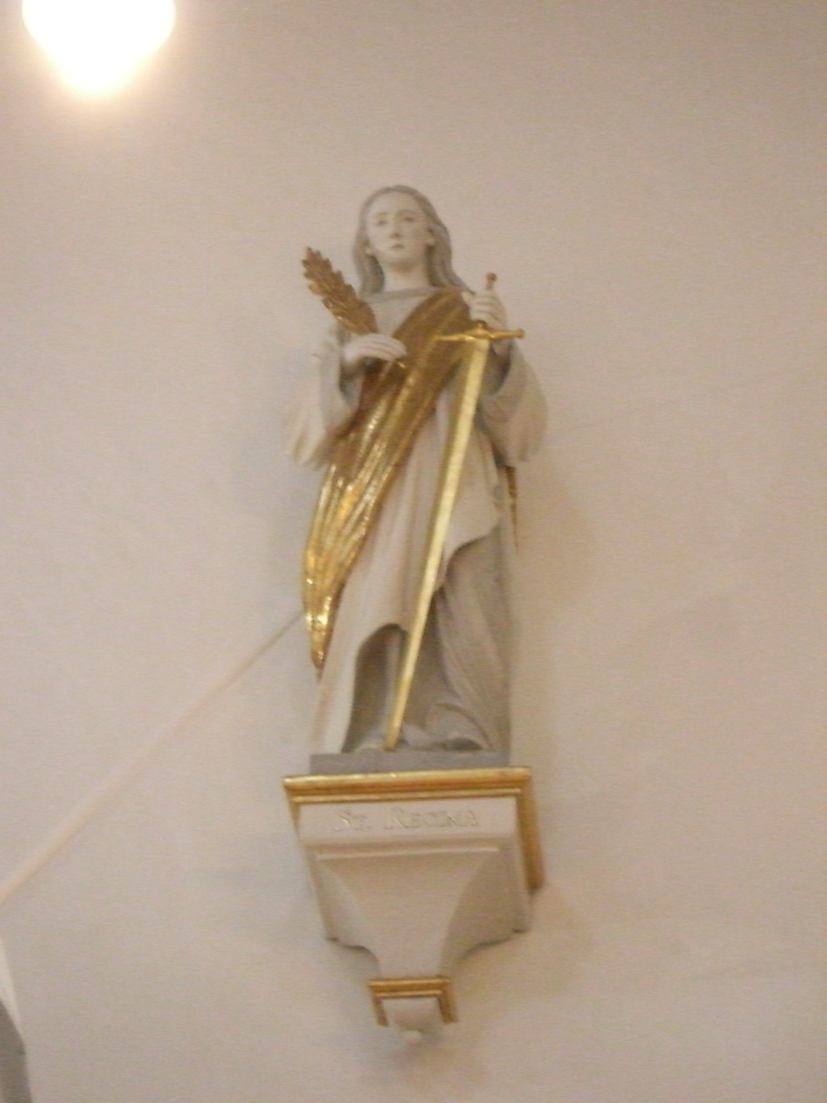 Statue der heiligen Regina aus der Pfarrkirche St. Regina Drensteinfurt / Statue of the Holy Saint Regina from the church with the same name.